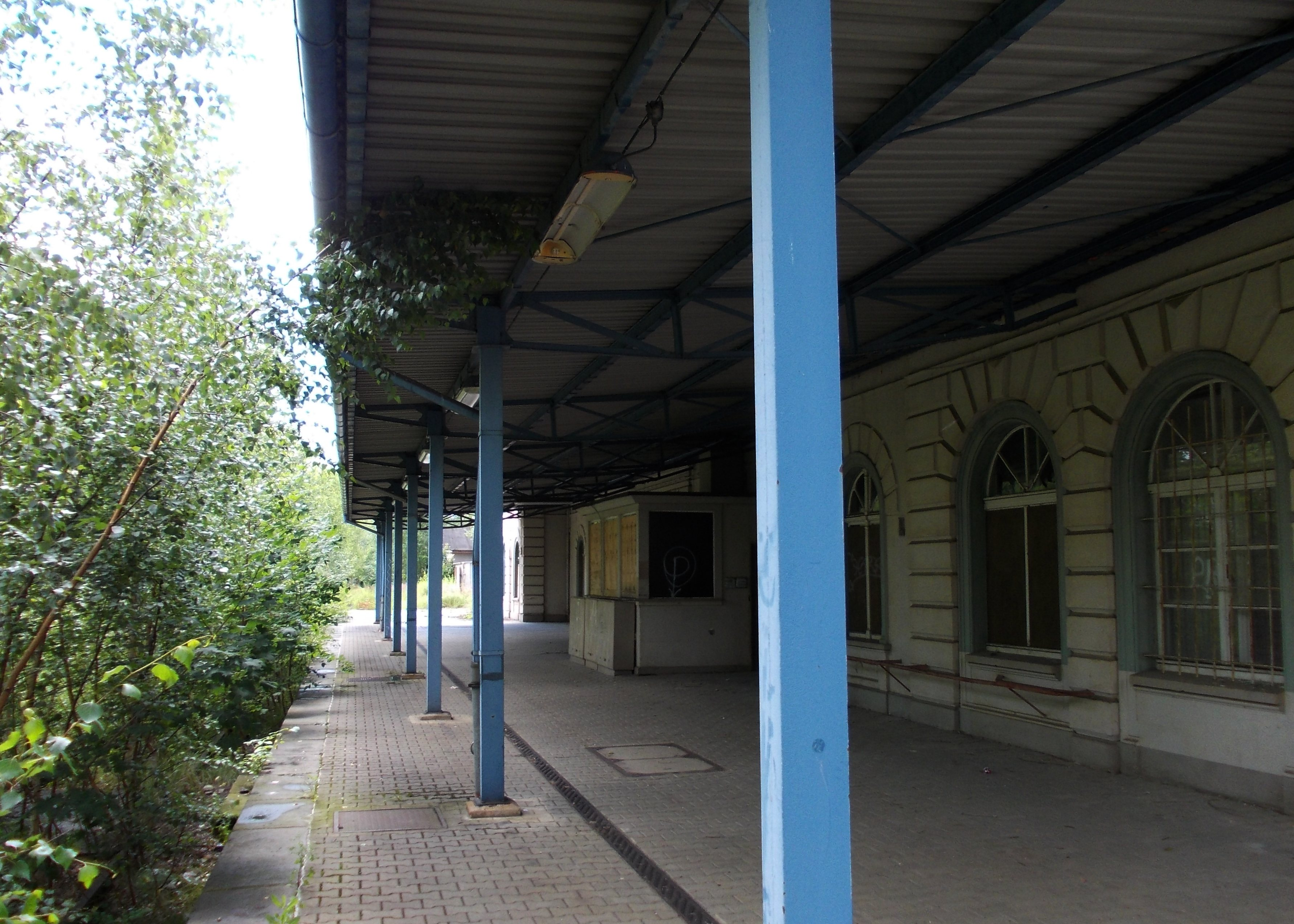 Oberoderwitz station (Oderwitz, Görlitz district, Saxony), platform at the former Zittau-Löbau railway line